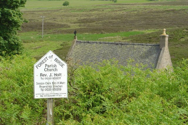 Forest of Birse Parish Church. Well hidden from the road, the church is tiny but well-preserved and is still (occasionally) in use. The church is within the parish of Birse and Feuchside, a fairly recent union of the three congregations of Birse, Finzean and Strachan. The main place of worship in the parish is at Finzean in the recently refurbished church 77557.